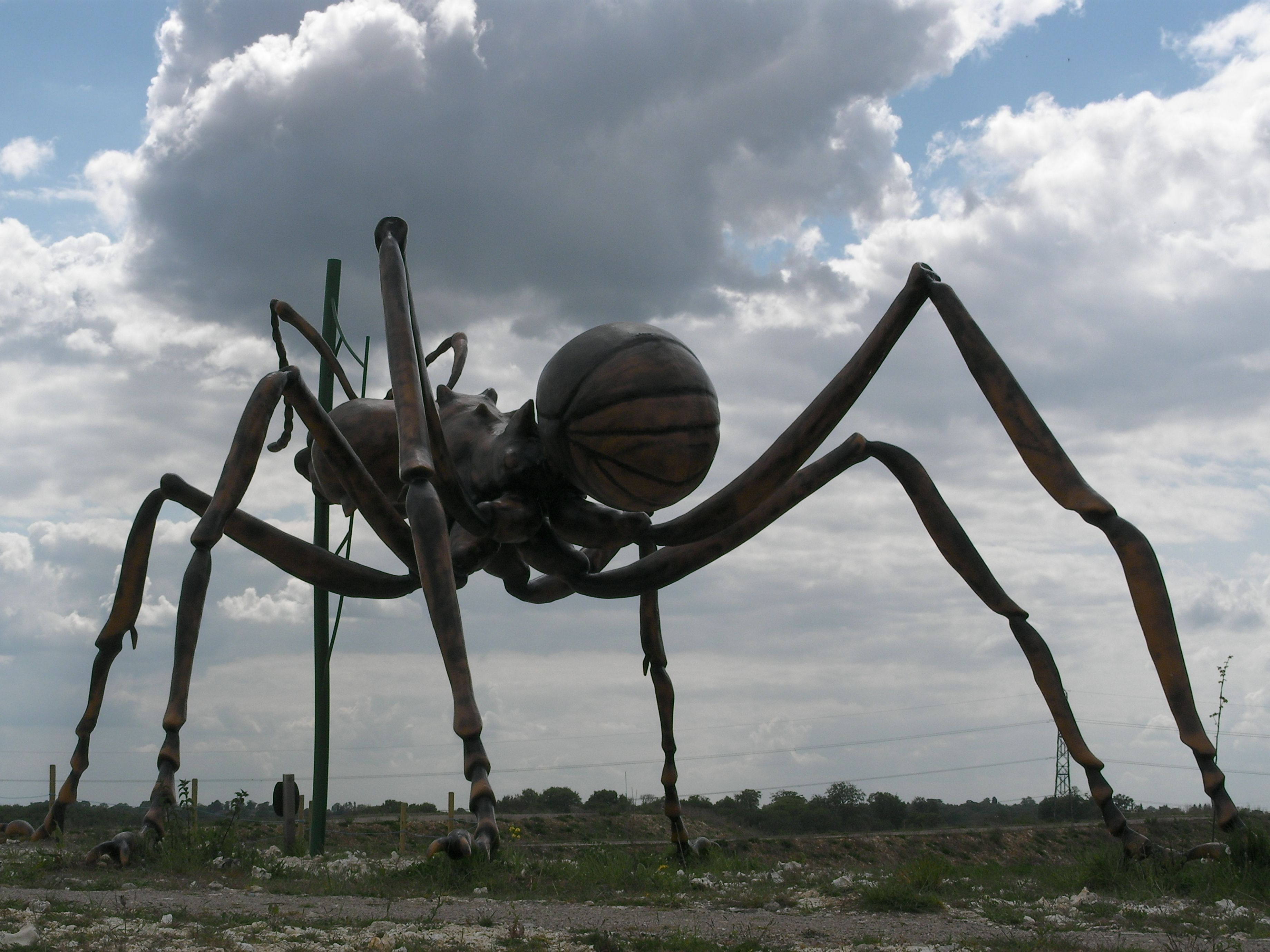 According to the booklet, its 50 ft in length